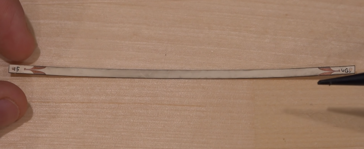 A PCB based D band waveguide designed by Vaes Joren and discussed by Shahriar Shahramian.